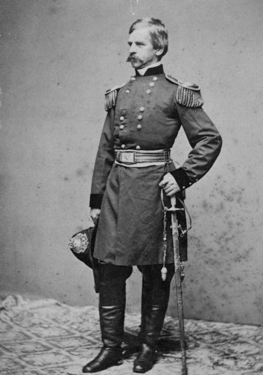 Major General Nathaniel Prentice Banks (1816-1894).